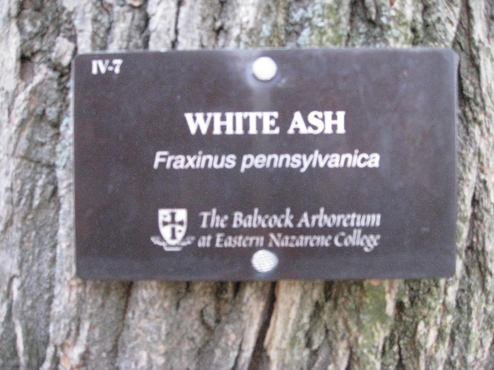 Tree at the Babcock Arboretum/Wollaston Park Campus of the Eastern Nazarene College. Taken by me in mid-April near sundown.